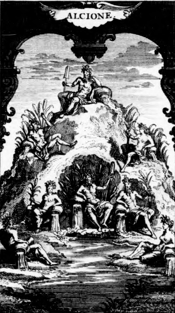 Marin Marais - Alcione - picture from the libretto - Paris 1706